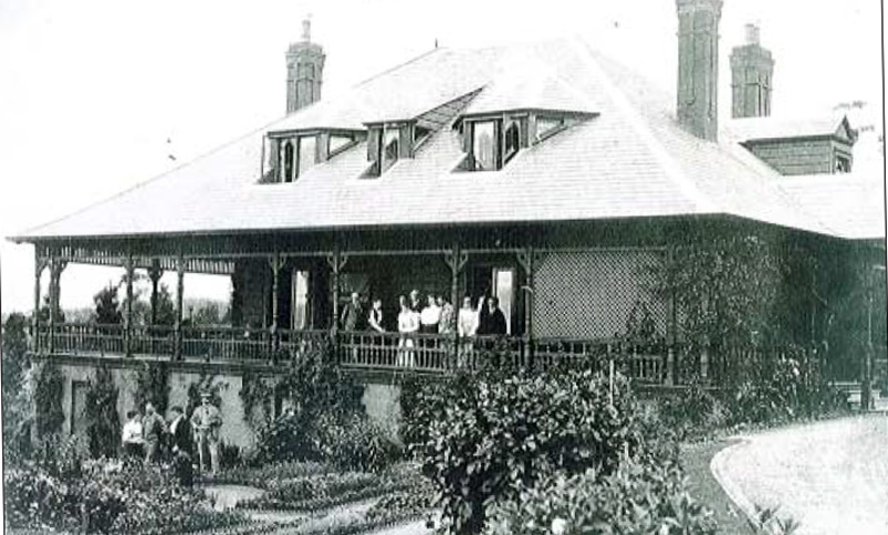 Lilianfels, Katoomba in about 1900